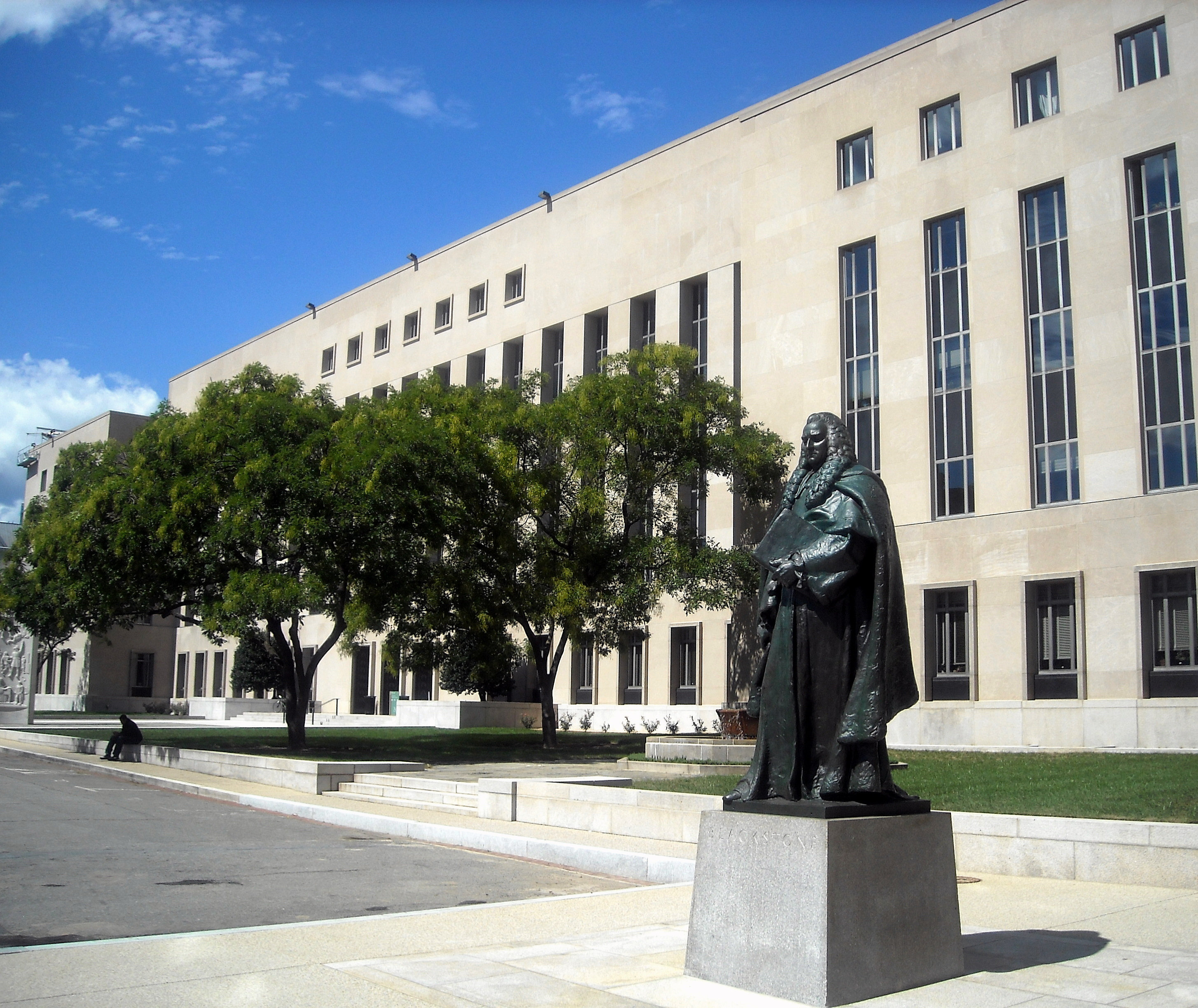 The Sir William Blackstone statue located in front of the E. Barrett Prettyman Federal Courthouse in Washington, D.C.